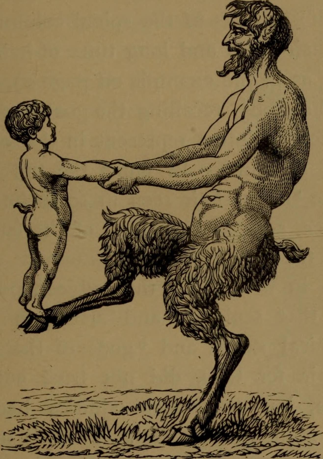 Title: Evolution and disease Year: 1890 (1890s) Authors: Bland-Sutton, John, Sir, 1855-1936 Subjects: Diseases Medical genetics Abnormalities, Human Animals Disease Congenital Abnormalities Publisher: New York : Scribner & Welford Text Appearing Before Image: Fig. 27.—A Faun, to showthe goat-like tail. DISUSE AND ITS EFFECTS. 55 the number may amount to five, and no abnormal pro-jection be observable. Thus far a well-developed tailin an adult human subject containing bony elementscontinuing the vertebral series has yet to be detected.In the new-born child, soft tails about an inch in lengthhave been observed : these contained cartilaginous tissueand resembled the flexible tail of pigs. Text Appearing After Image: Fig. 28.—An ^Egipan sporting with a Faun. Bacchus and Silenus. Many instances of tailed children when criticallyexamined turn out to be tumours or tufts of hair in theloin. A general notion of a false tail may be gatheredfrom the African child represented in fig. 26. In thiscase a large rounded tumour hangs pendulous from thechilds buttocks, and a little imagination would soon S6 E VOL UTION AND DISEASE. distort this into a tail. The tumour was removed inCentral Africa and sent to Professor Virchow.1 Thependulous mass consists of a hollow central cavity sur-rounded by fat and covered externally by skin, and inVirchows opinion it arose as a diverticulum from themembranes of the spinal cord (spina bifida). The most interesting false tails are those formed oftufts of hair. It was mentioned in the last chapter thatcertain malformations of the spinal column are associ-ated with hair-fields and long tufts of hair in the loin.Sometimes, as in the example on page 23, the hairs areseveral in